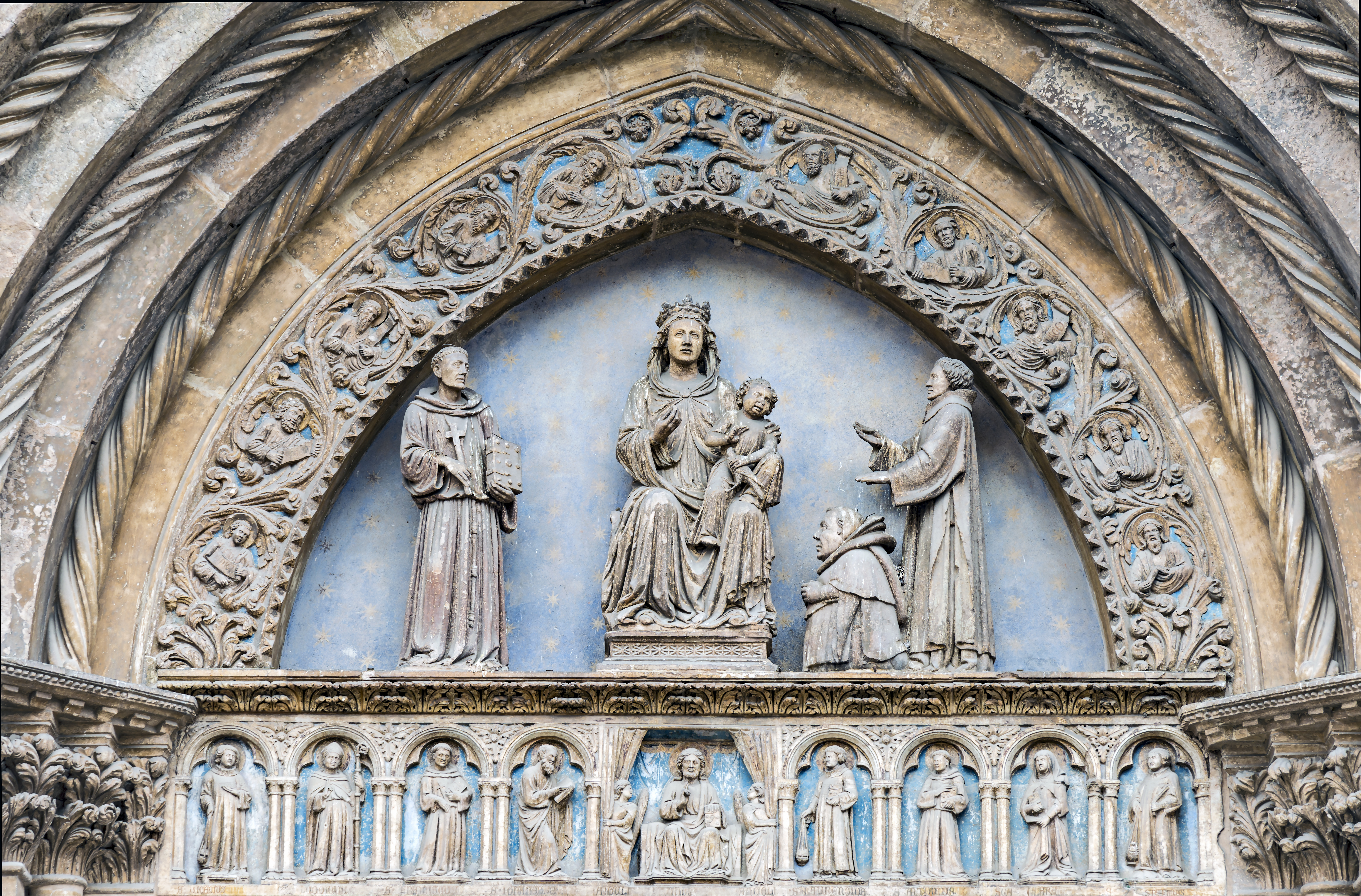 Façade of Church San Lorenzo in Vicenza - The porch, built in the forties of the sixteenth century by the sculptor and architect of Venice Andriolo de Santi and financed by a testamentary legacy from a councilor of Cangrande della Scala, Pietro da Marano called the Dwarf who hoped with This act of generosity to get rid of the burden of a lived life by practicing usury. It is represented in the lunette of the portal, kneeling in a repentant attitude before Mary and the child, flanked by saints François and Laurent. Framing the bezel in interlaced acanthus five busts of the prophets on the left side, and five busts of Patriarchs on the right side. On the architrave in the center: Christ blessing. On his right were Saint Vincent, Louis of Toulouse, Francis of Assisi and John the Evangelist, on the left Laurent of Rome, Antoine of Padua, Chiara and Stéphane, four figures of tradition, four of the Franciscan repertoire.